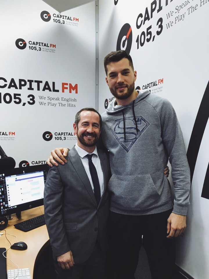 With CSKA Moscow basketball star Alec Peters